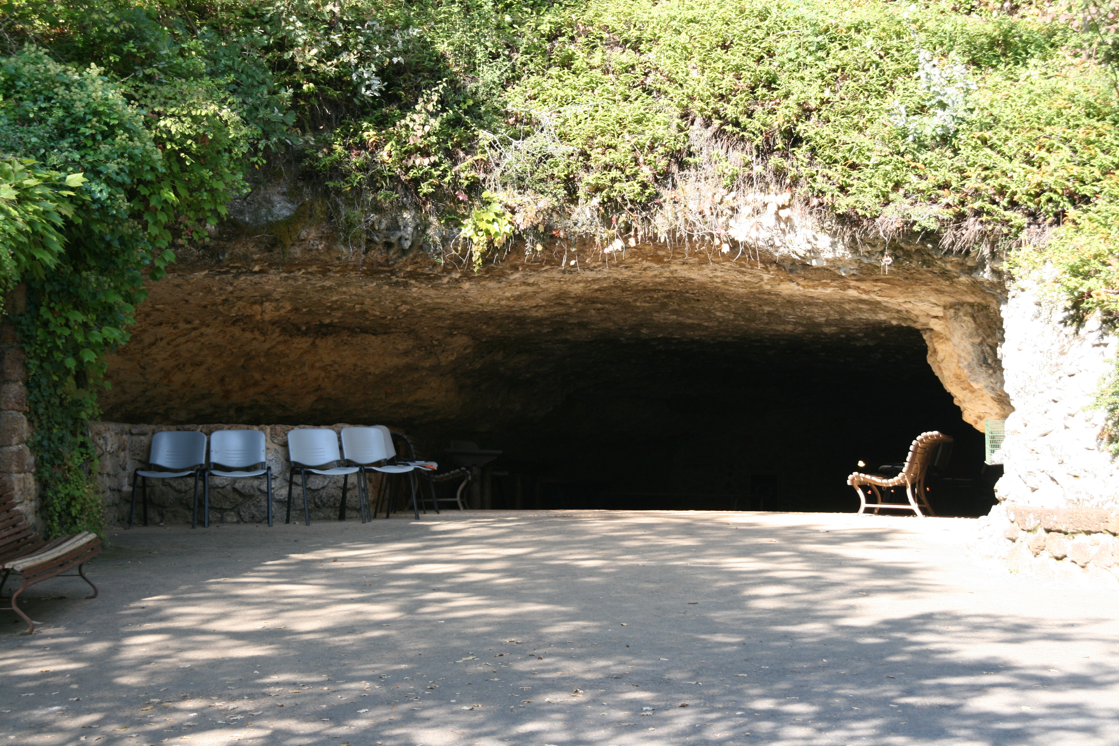 Entrance of the Rouffignac cave, Rouffignac-Saint-Cernin-de-Reilhac, Dordogne, France. This site was occupied by Homo Sapiens, near 13,000 BP.